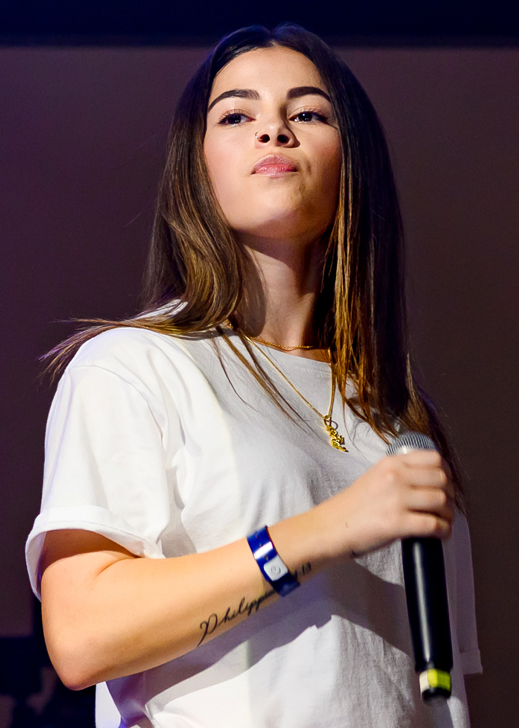 Destiny Rogers performing live at the ACURAxGENIUS event at Mack Sennett Studios on 09/26/2019.